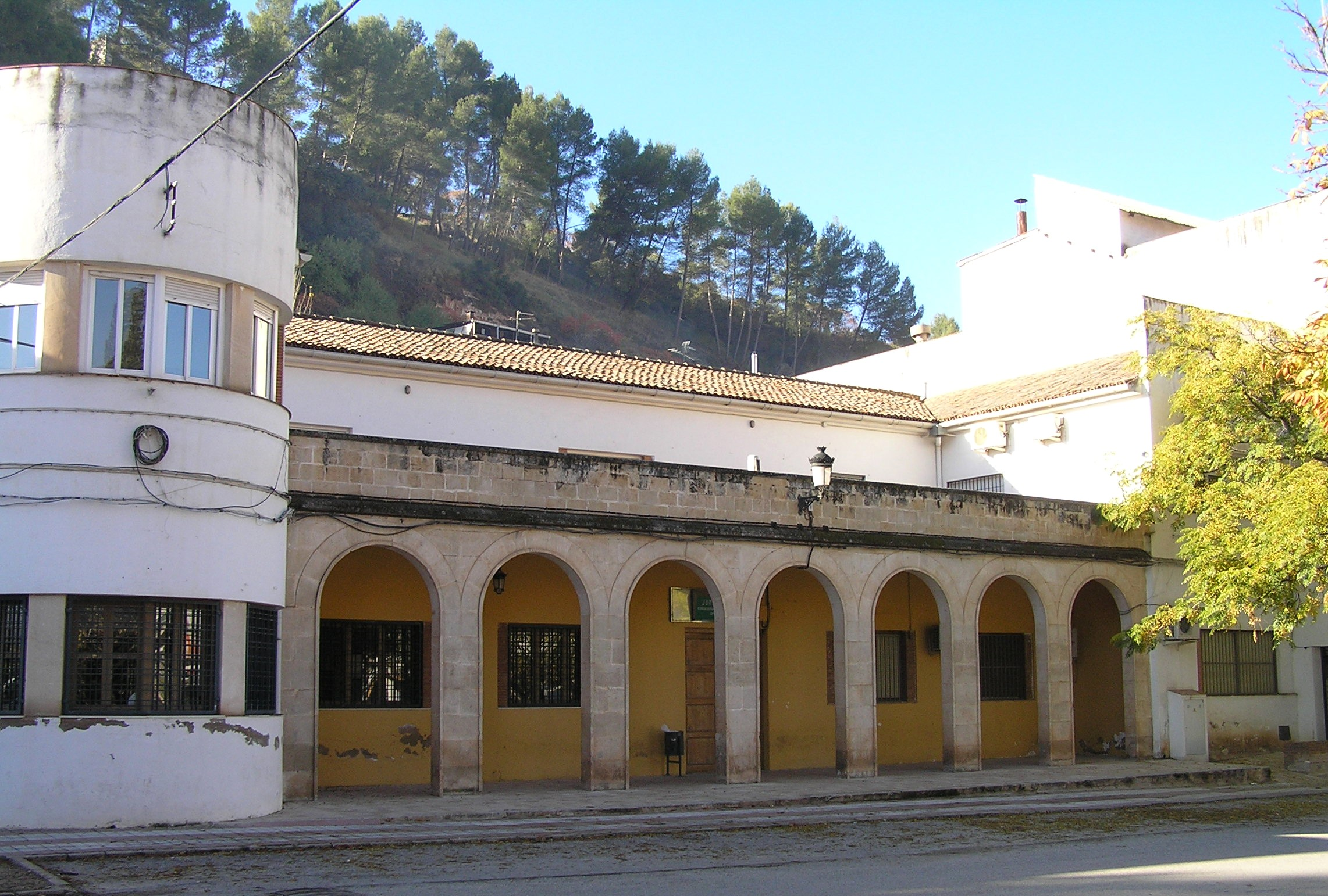 Edificio Avda. del Mercado